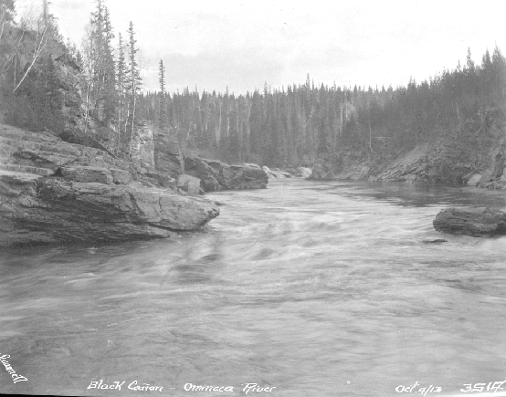 Photo taken 1913